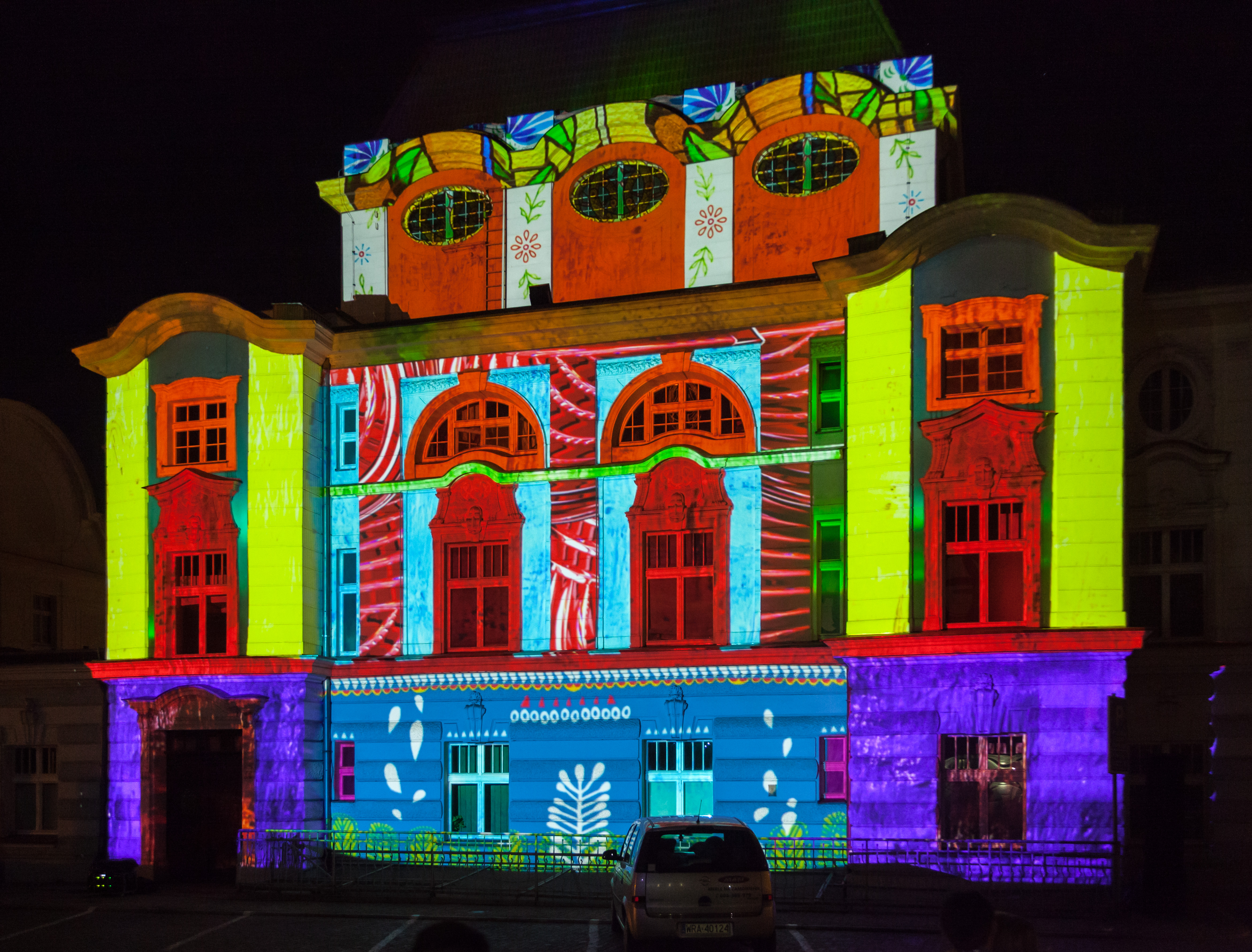 Light Painting mapping on Horzyca Theatre in Toruń, Poland. Bella Skyway Light Festival.